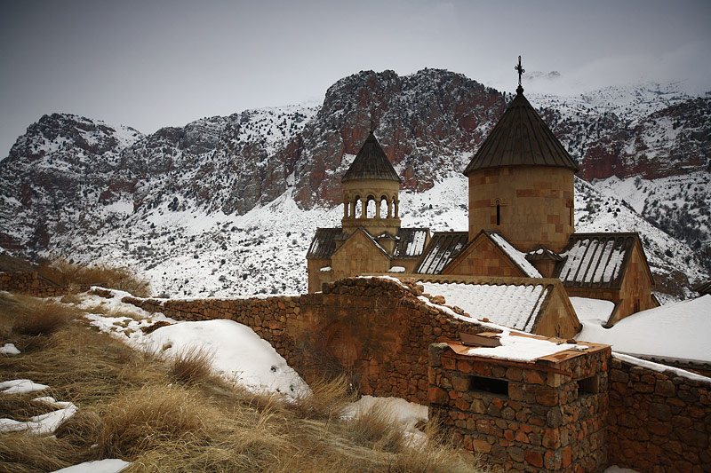 Armenia. Monastery Noravank